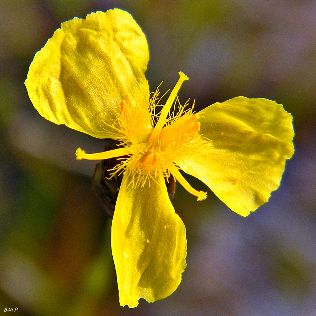 One of the 4 species of yellow-eyed grass that grow at Juno Dunes Natural Area. Unfortunately, I don't know which one...something I will try and correct if the sun ever shines on a day I'm off again :) Though less common, there is a white form at Juno Dunes as well.